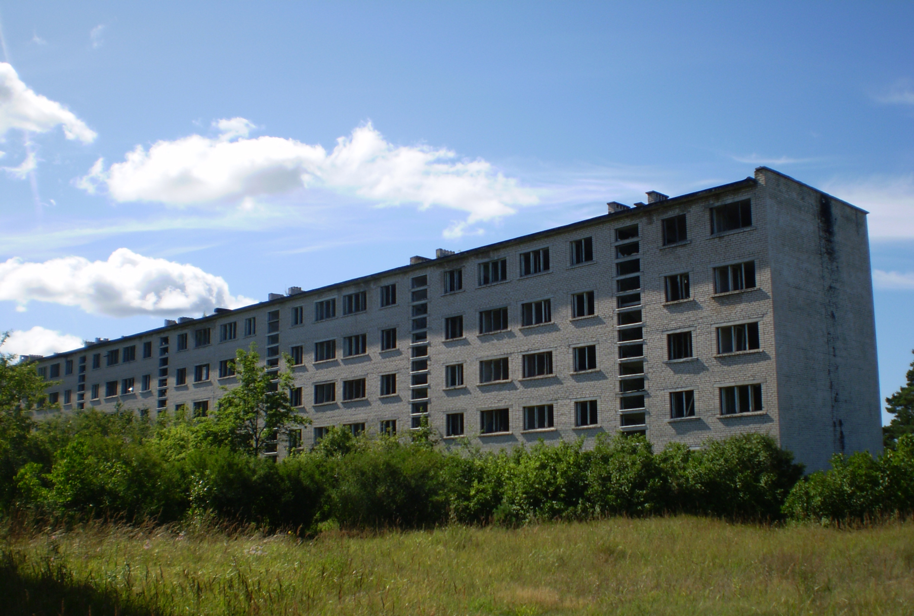 An abandoned apartment house in Irbene, Latvia.